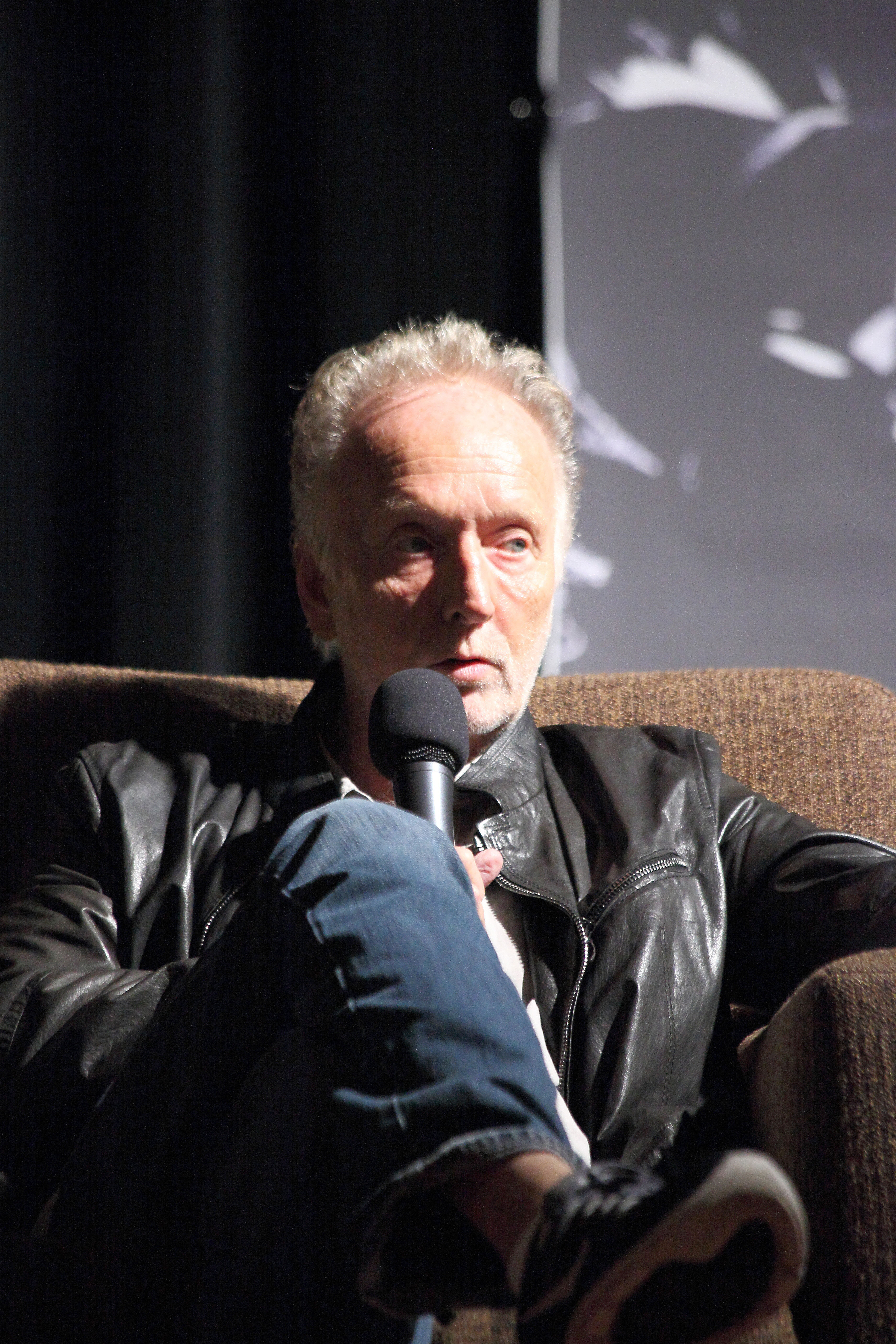 Tobin Bell at Spooky Empire Ultimate Horror Weekend 2014 in Orlando, Florida.